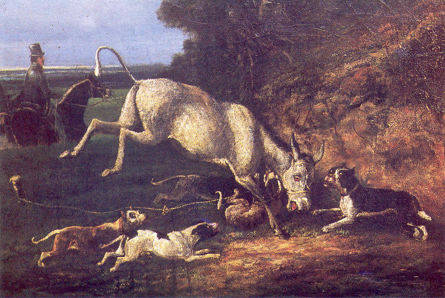 Donkey Attacked by dogs (Bull-and-Terriers, and Bulldog), Oil painting, Circa 1840